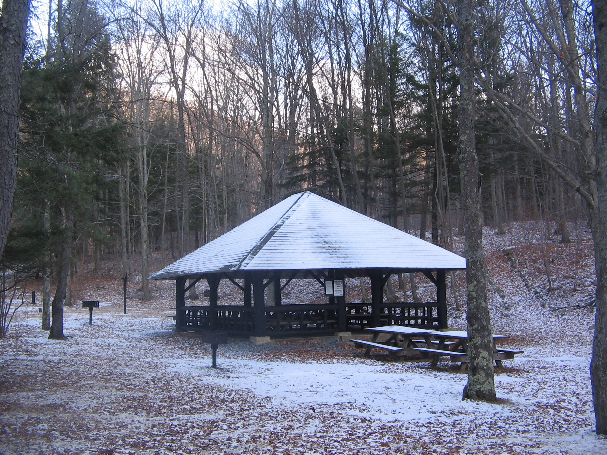 CCC-built Picnic Pavilionin Worlds End State Park, near Forksville, Sullivan County, Pennsylvania, USA (near beach)